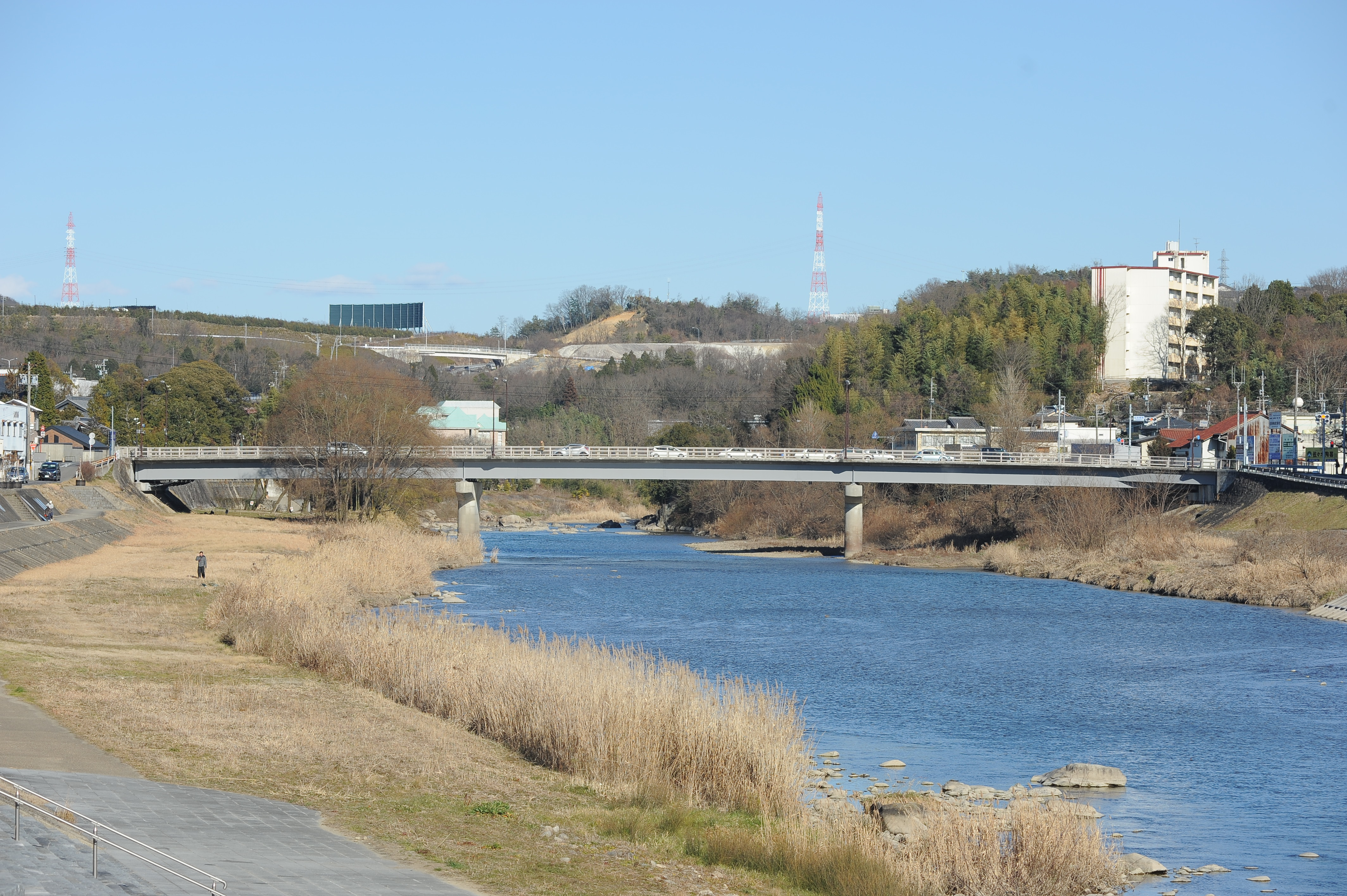 Kinen bridge (Toki rivier), Tajimi, Gifu